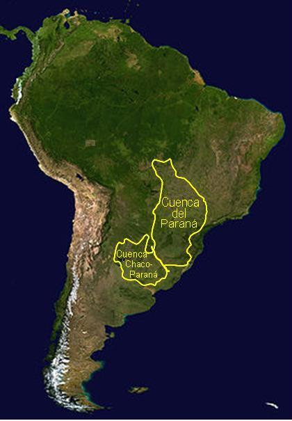 Geographic limits of Paraná Basin, South America